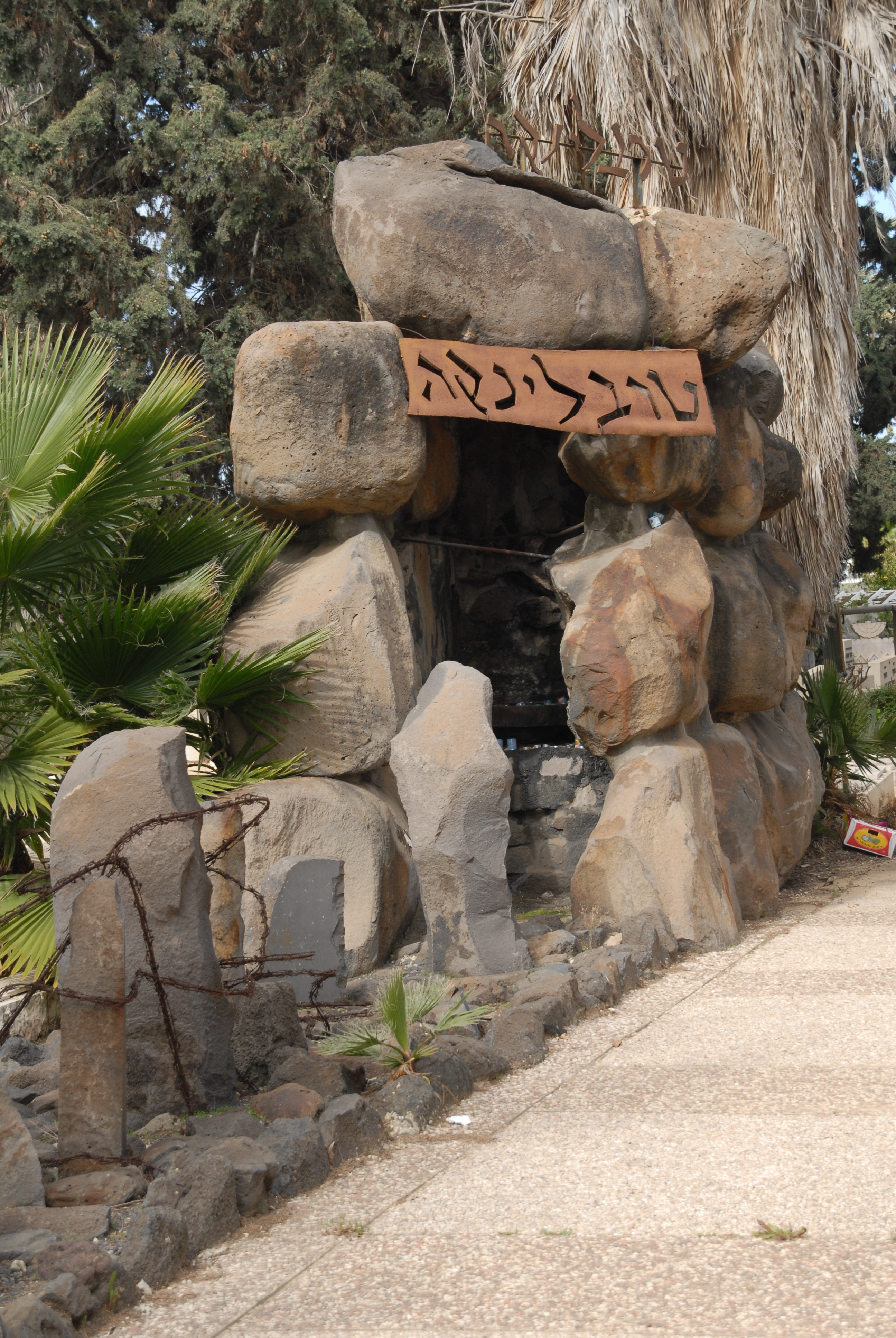 Treblinka memorial in the Nahalat Yitzhak Cemetery in Tel Aviv